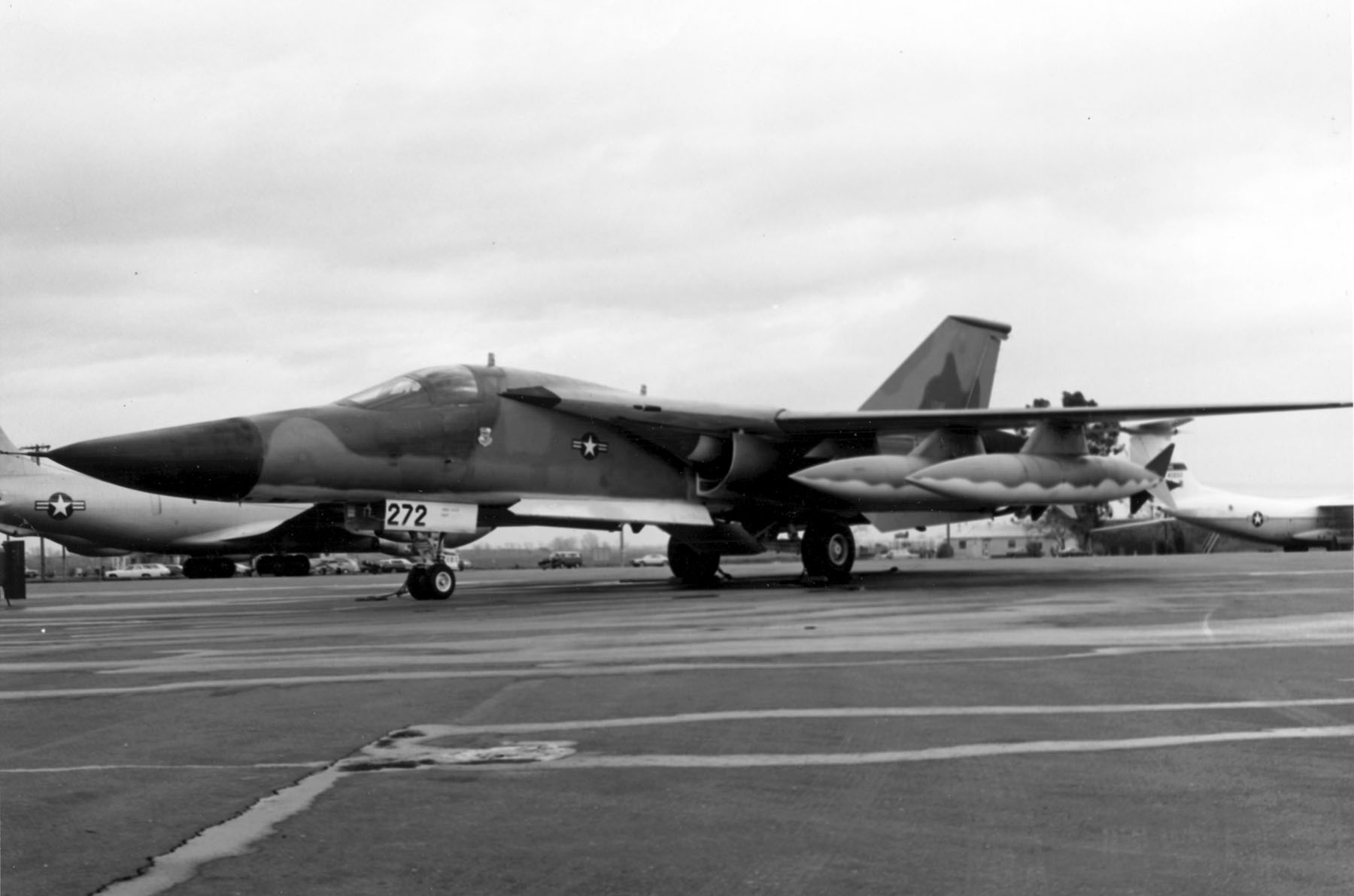 General Dynamics FB-111A (S/N 68-272) of the 380th SAW, taken Feb. 24, 1973